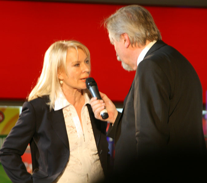 Gerda Rogers and Peter Rapp; Jeannine Schillers charity-fashion show at the Donauzentrum in Vienna